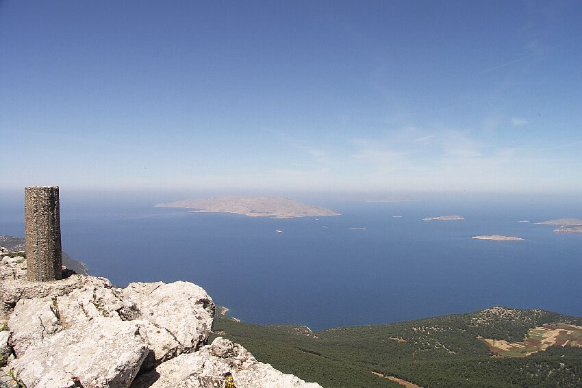 view from Akramitis Mountain, Rhodes, Greece